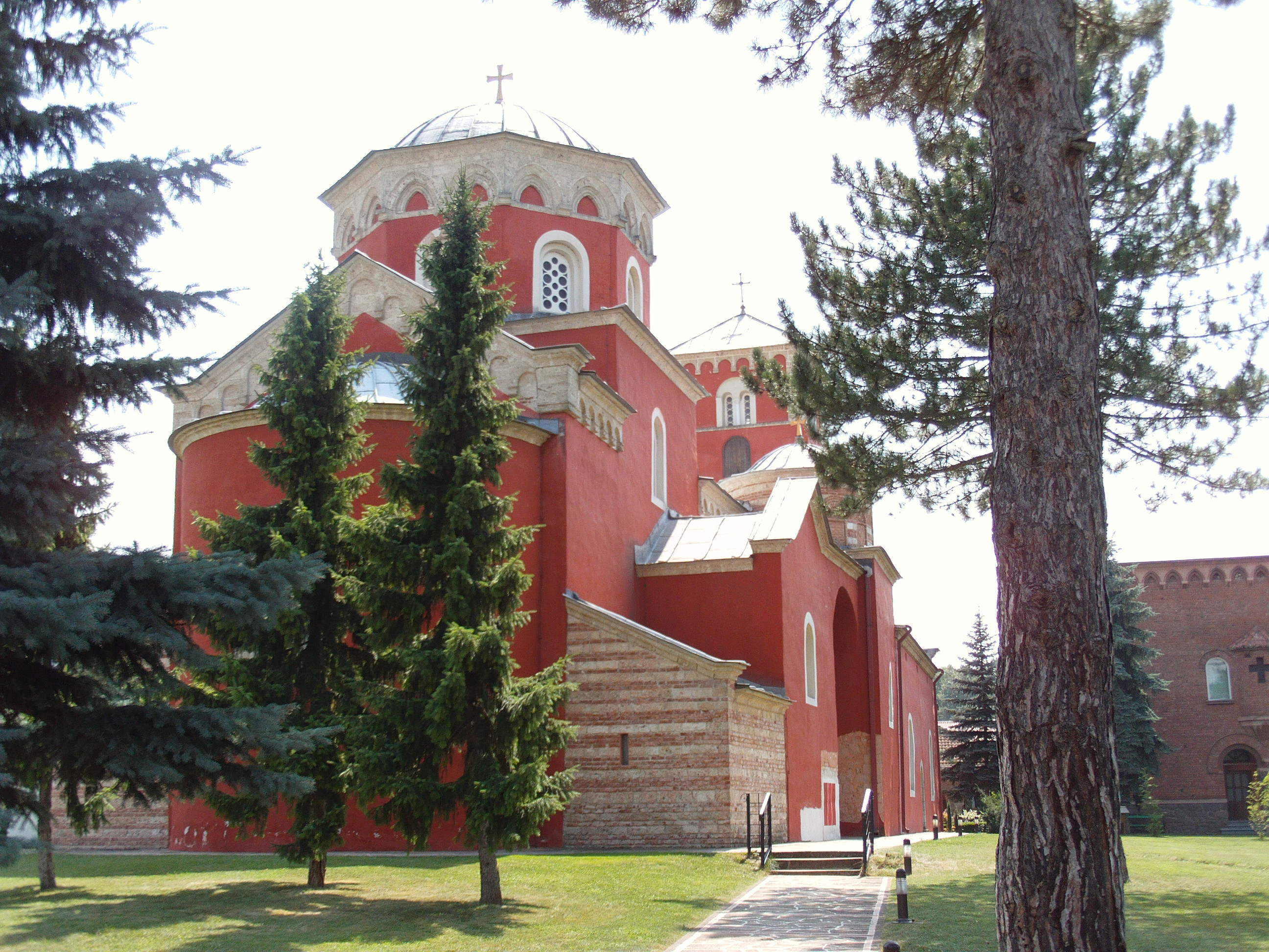 Žiča Monastery, overview. Near Kraljevo, Serbia.